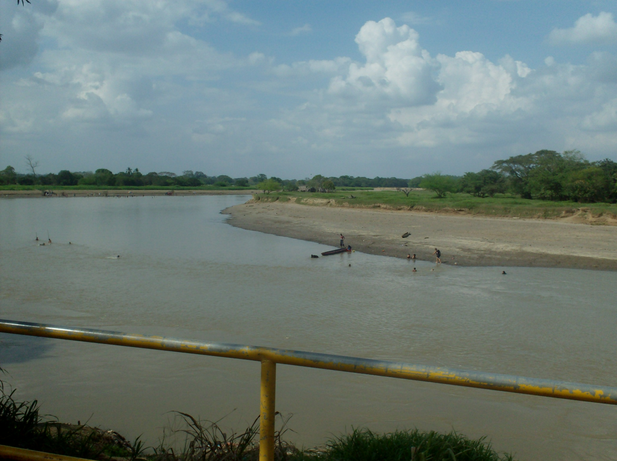 Vista del Rio San Jorge